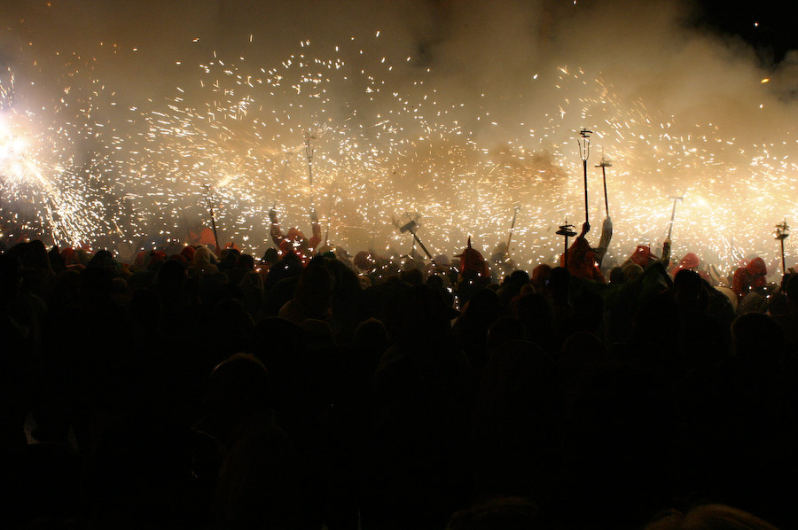 Image from the Correfoc, Barcelona, September 23rd, 2006, Via Laietana (Jaume I metro stop)